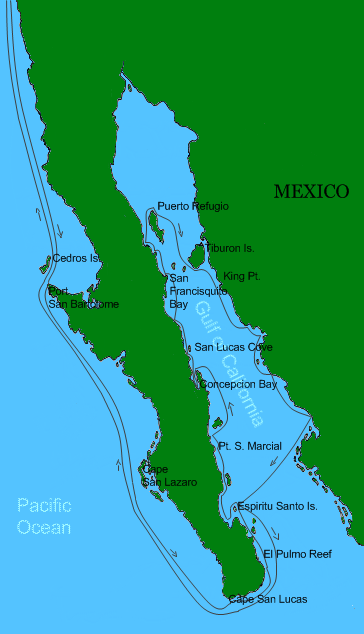 Steinbeck and Ricketts' route around the Gulf of California recorded in The Log from the Sea of Cortez